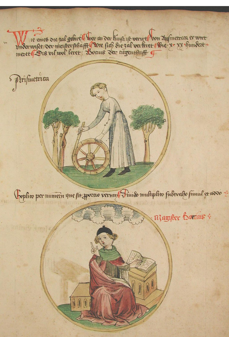 The Seven liberal arts. Arithmetic and Boethius. Anicius Manlius Torquatus Severinus Boethius.